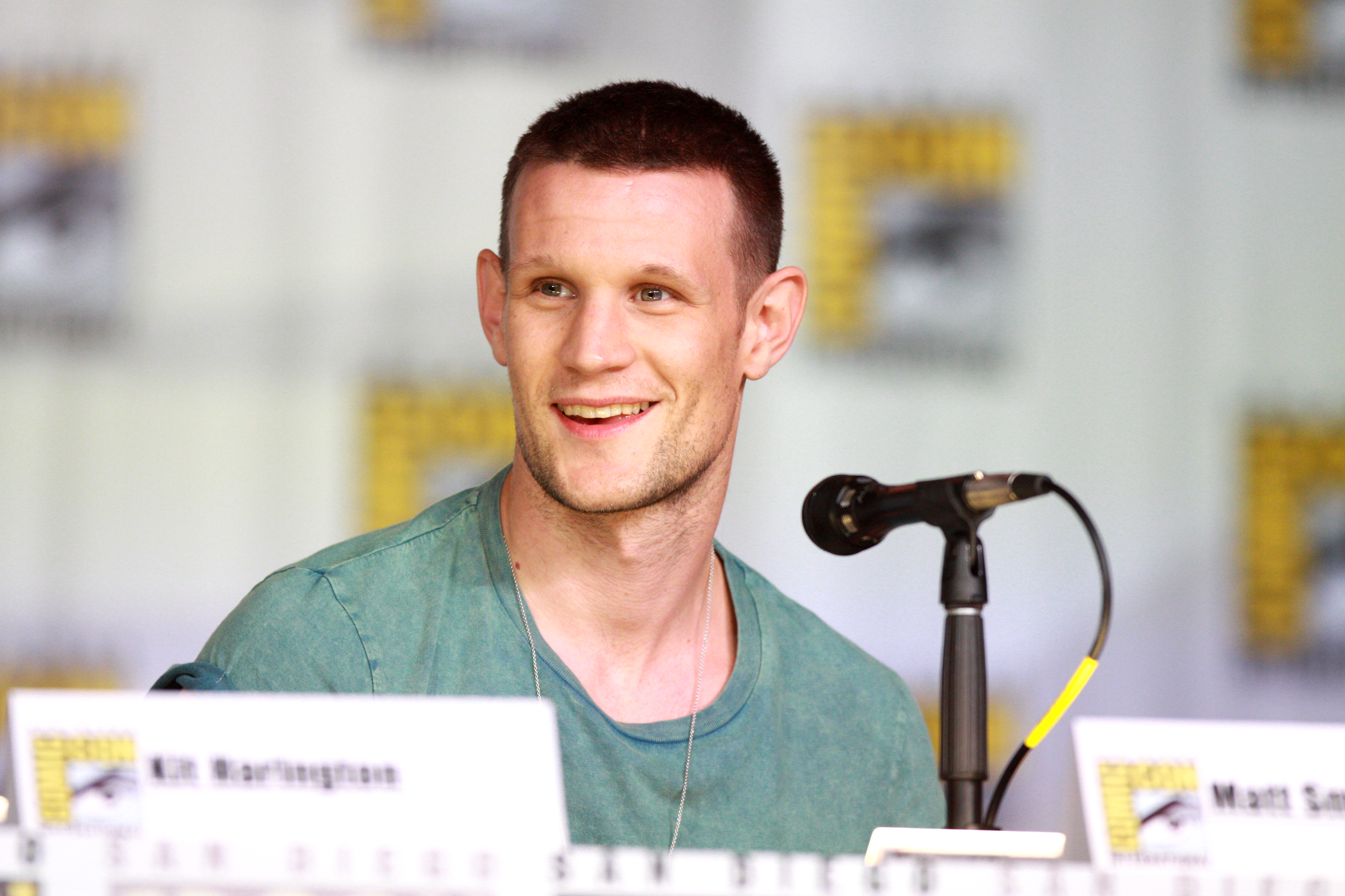 Matt Smith speaking at the 2013 San Diego Comic Con International, for Entertainment Weekly's "Brave New Warriors" panel, at the San Diego Convention Center in San Diego, California.